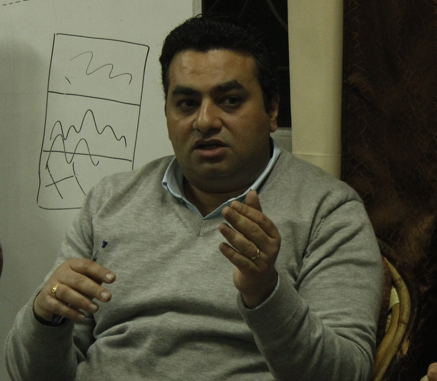 Sameh samy